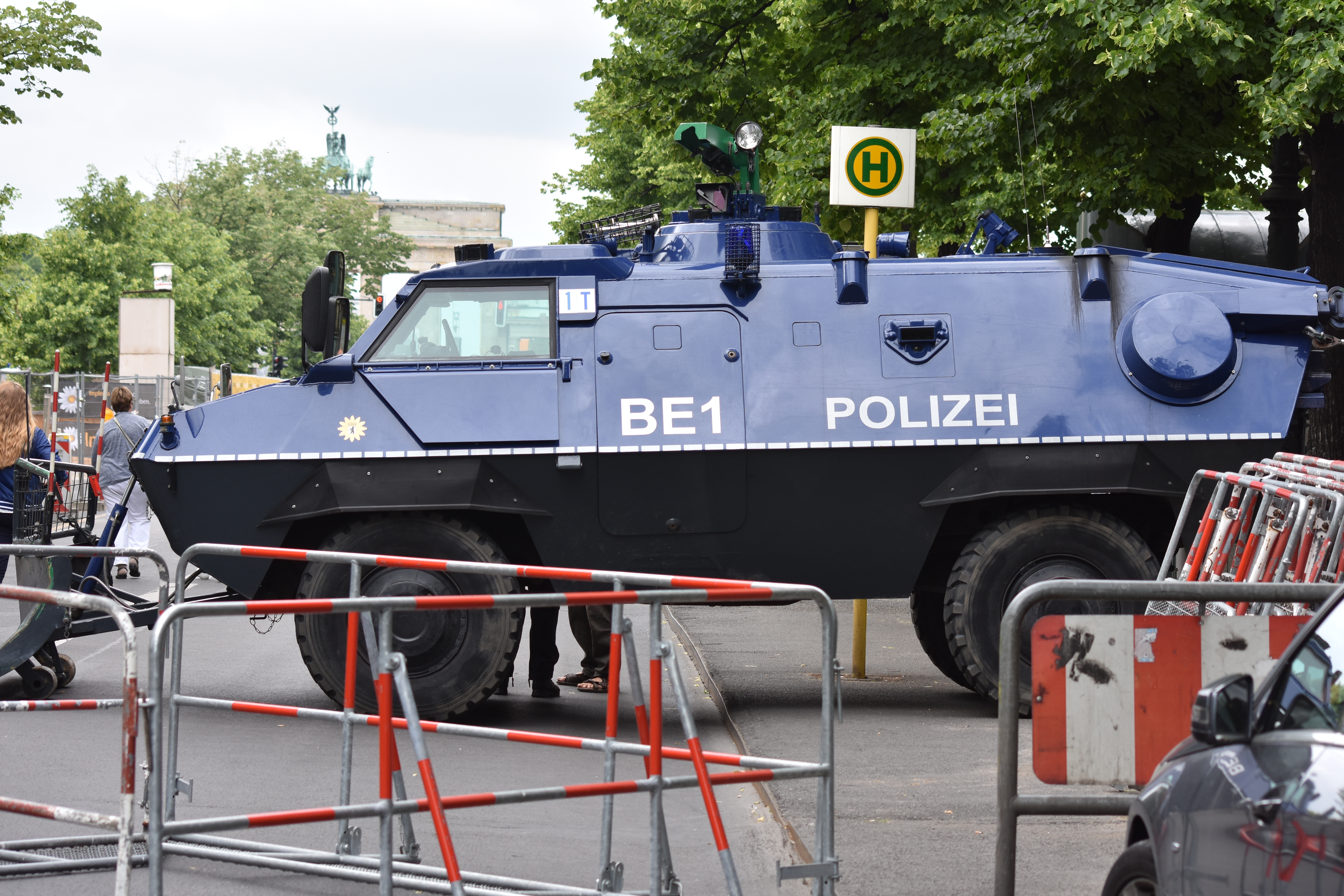 Sonderwagen BE1 Berliner Polizei by Nicolas Völcker